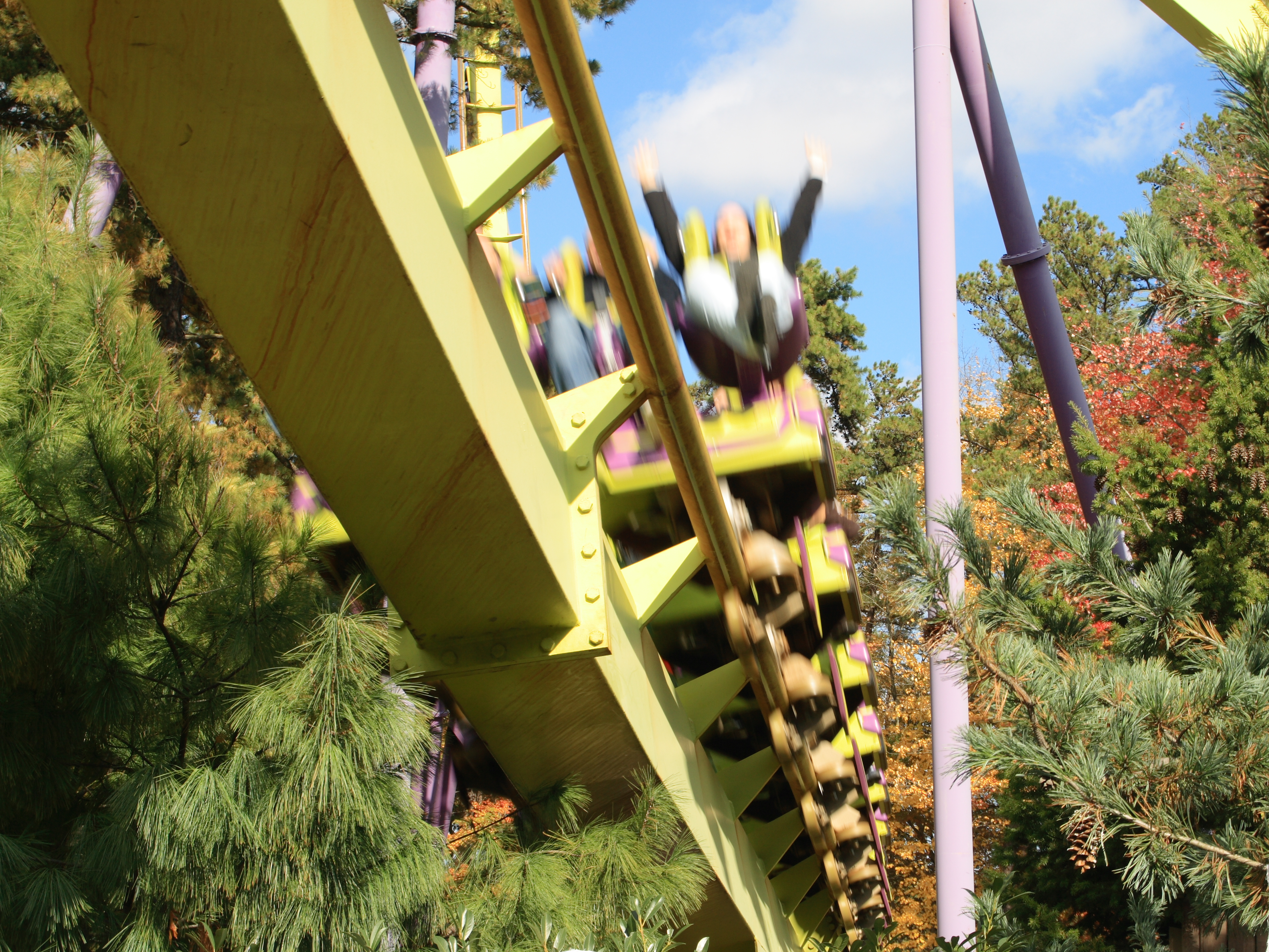 Medusa's train brushes by a tree as it passes very close to the queue